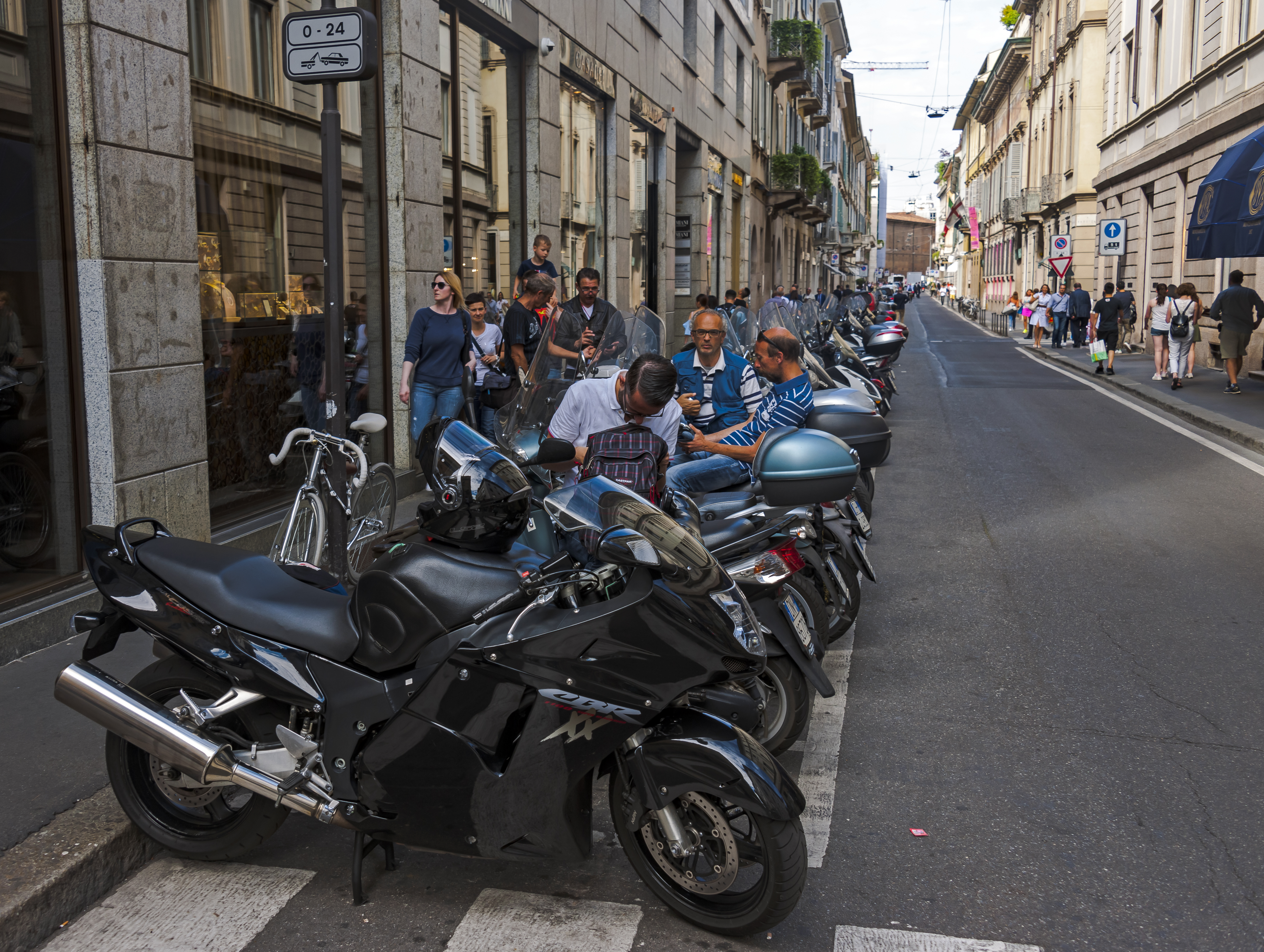 Motorcycles parked along Via Sant'Andrea at the southern end of the Quadrilatero della moda, Milan